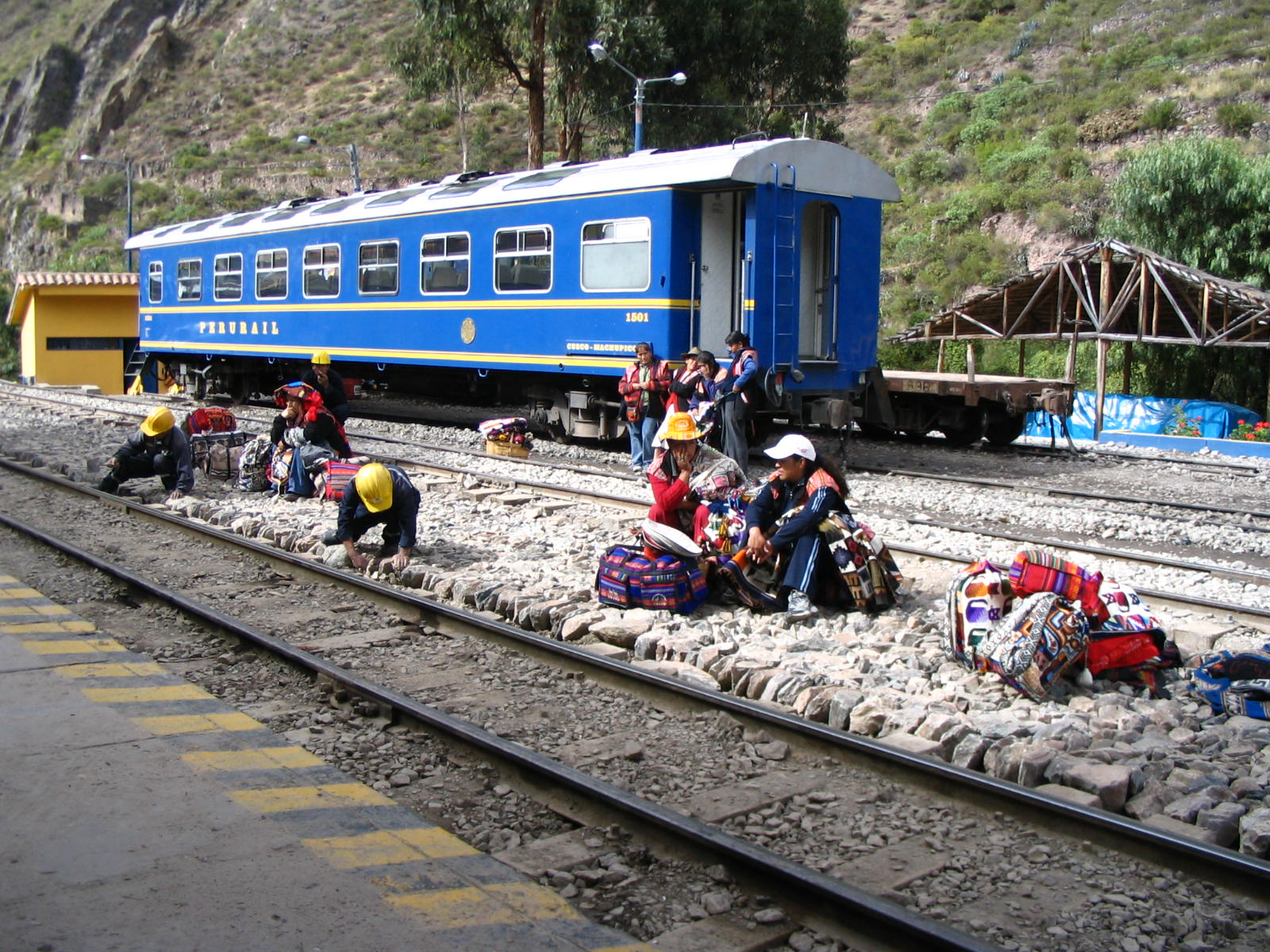 This group of garment sellers were sitting between the railway tracks. We hadn't realised they were there until the previous train pulled away revealing them all sitting there. / PeruRail passenger car